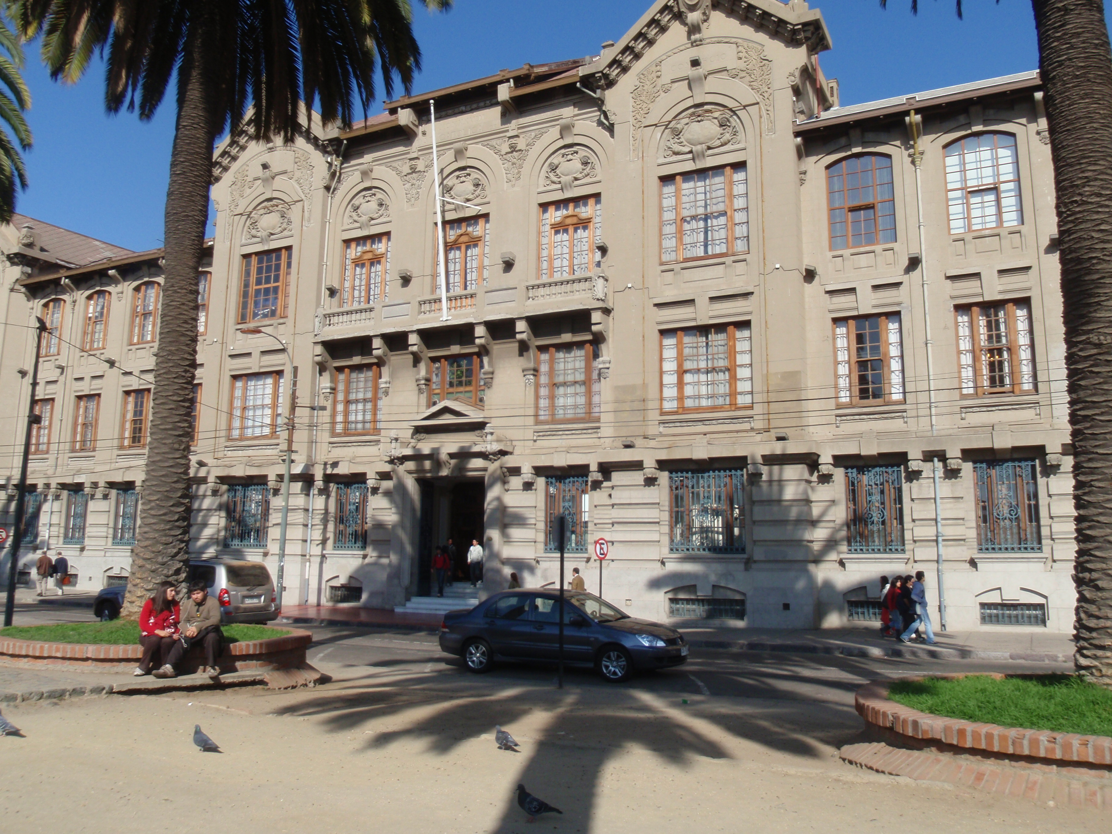 Casa Central of the Pontifical Catholic University of Valparaiso, Chile.